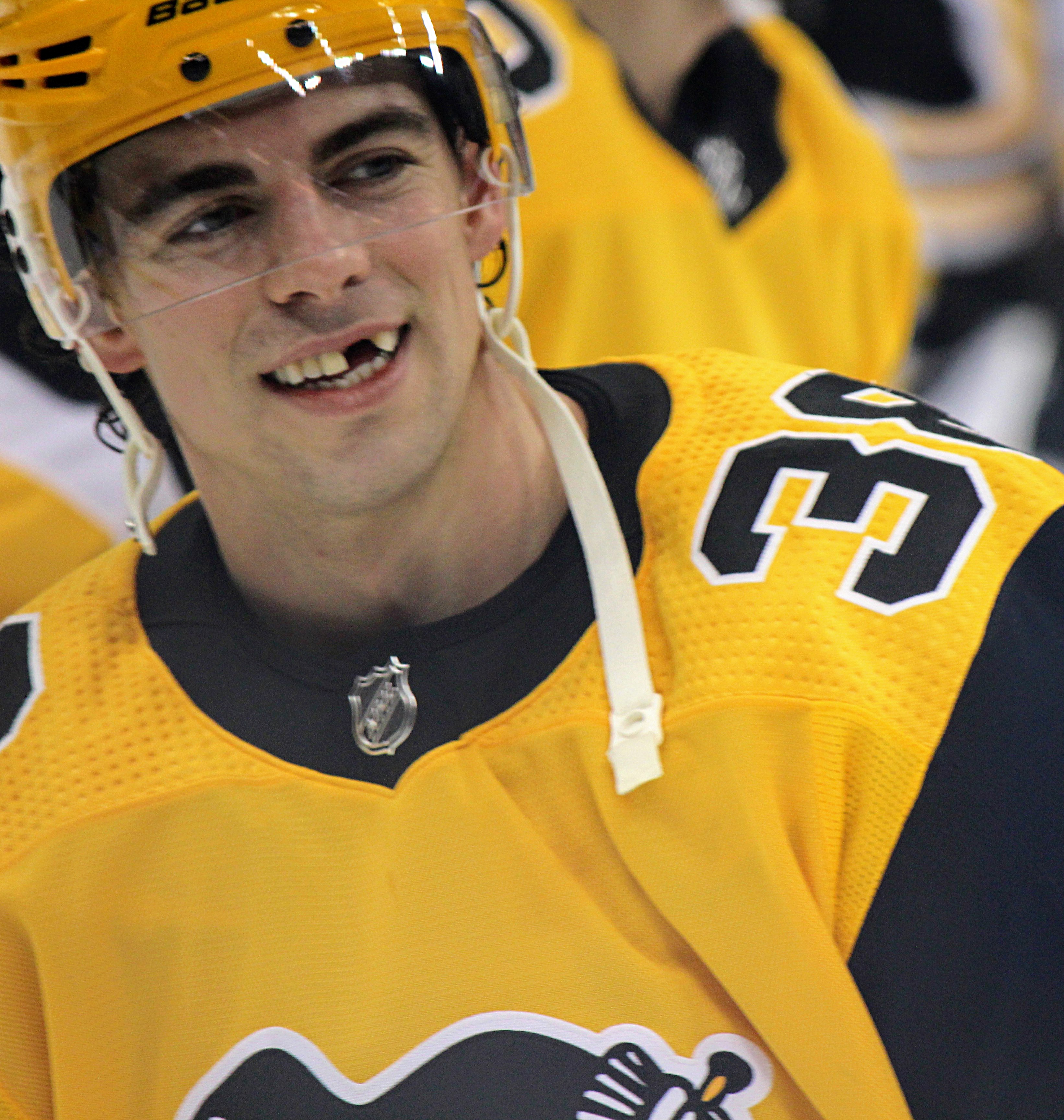 Pittsburgh Penguins forward Derek Grant.